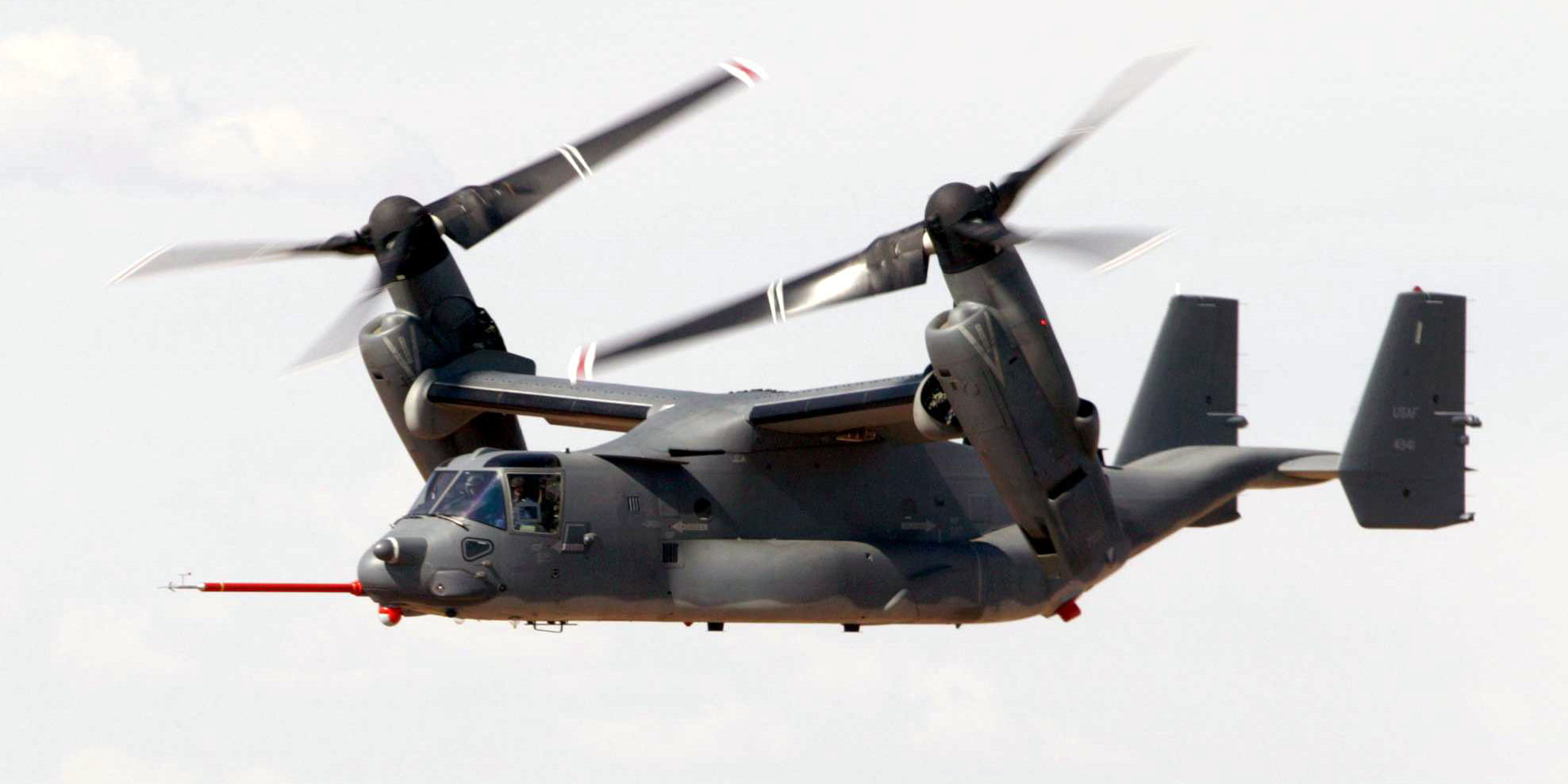 A U.S. V-22 Osprey tiltrotor aircraft flies a test mission. U.S.